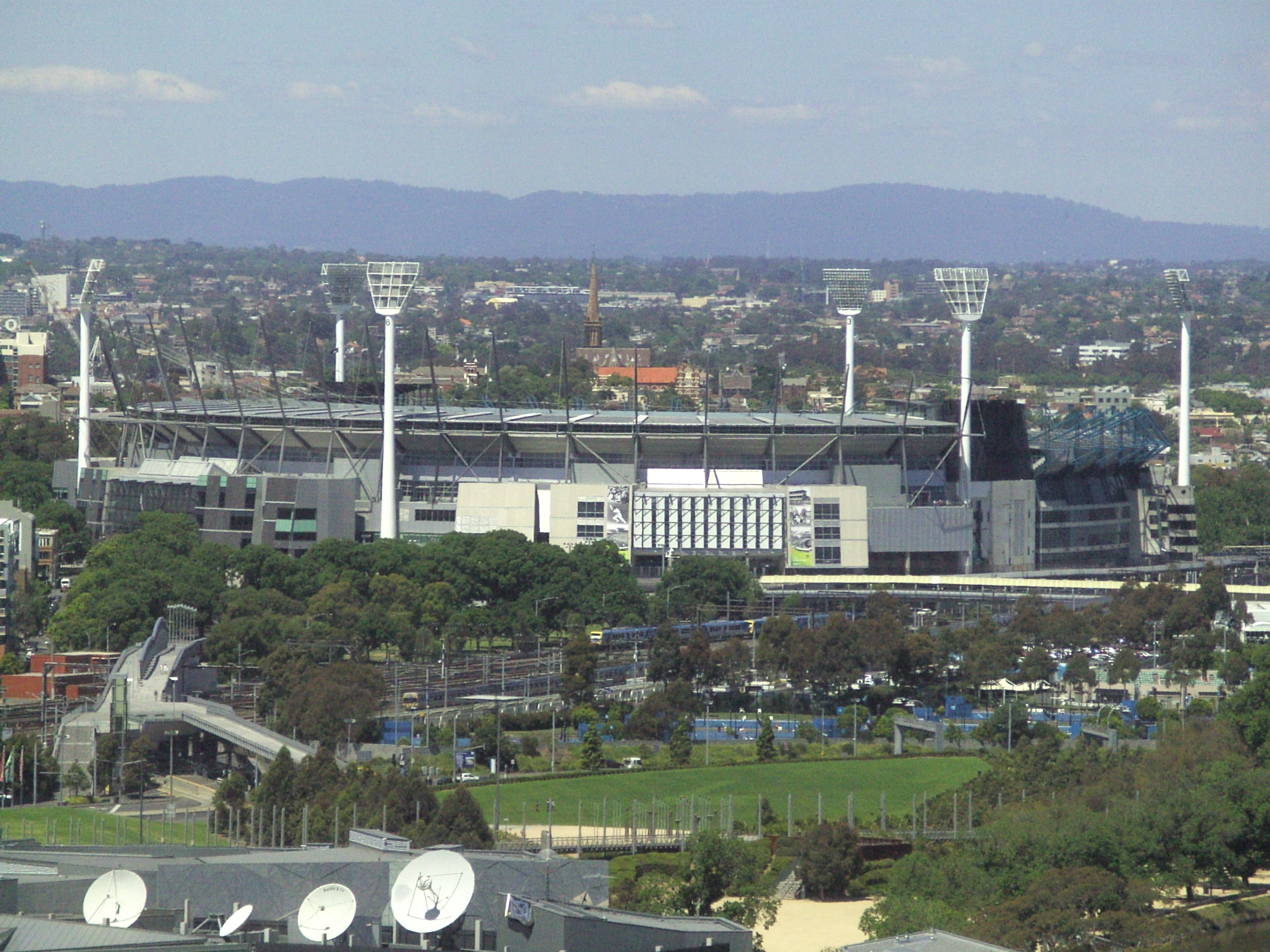 Melbourne Cricket Ground viewed from a city building. Foreground shows the top of Federation Square and the antennas for SBS Television. Middleground shows the suburban railway lines, and overpasses leading to the MCG.